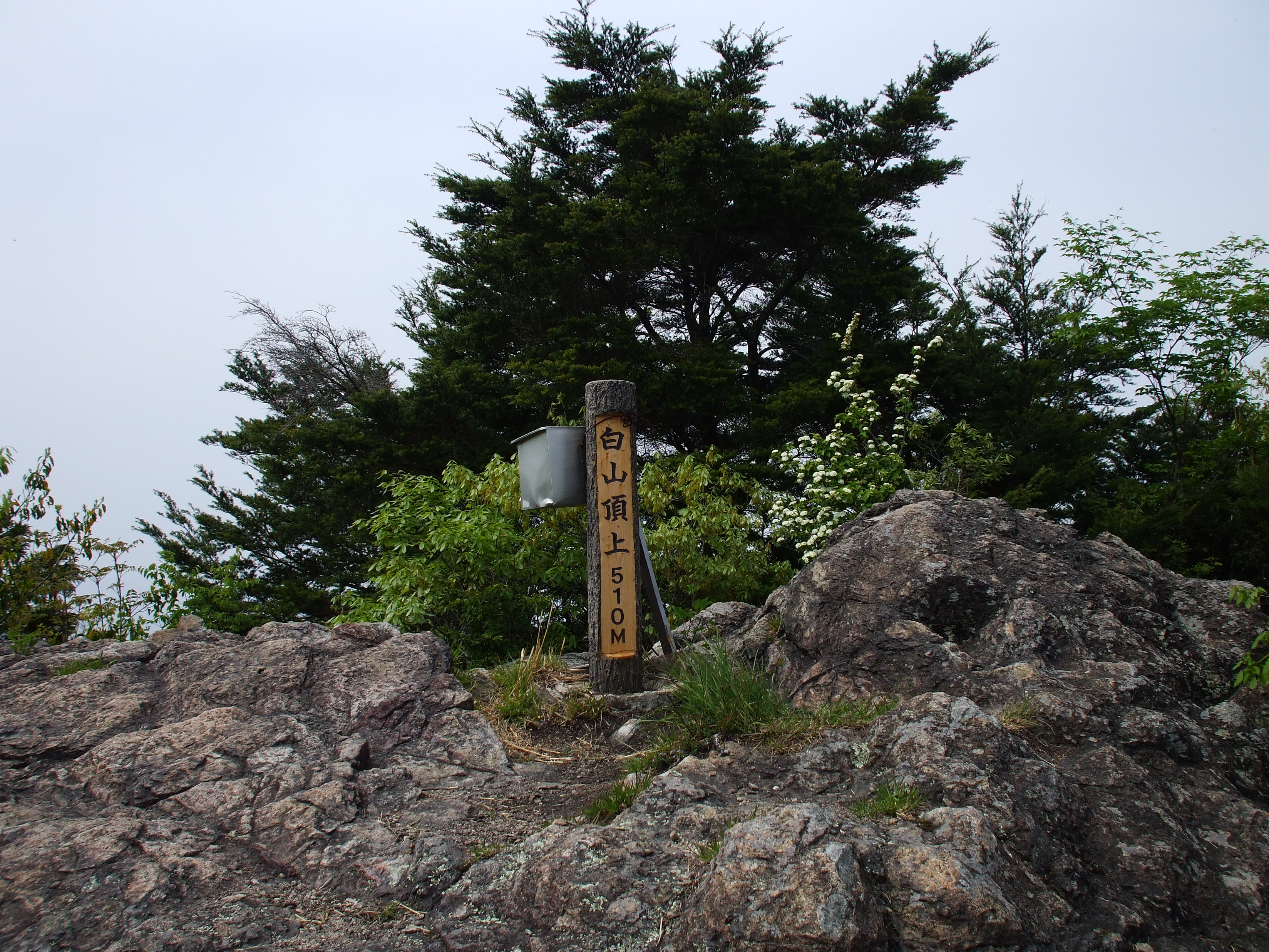 Top of Mount Haku (Haku-san) in Nishiwaki City, Hyogo Prefecture, Japan